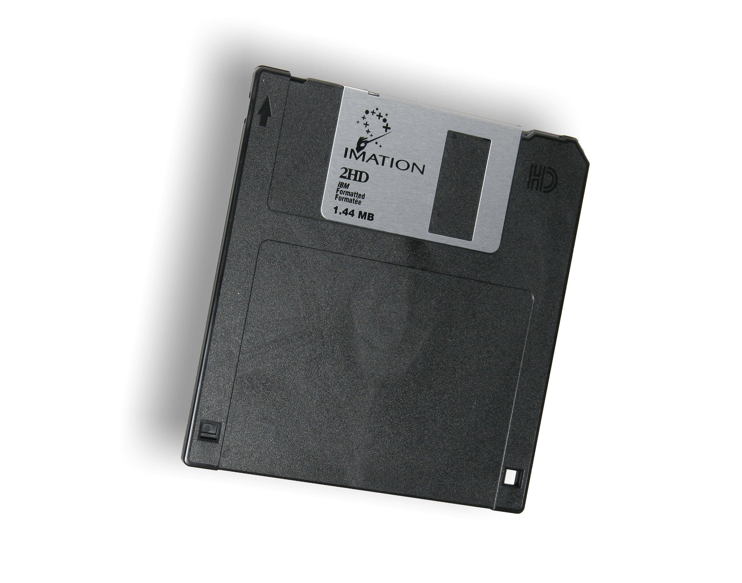 A 3.5″ Diskette.